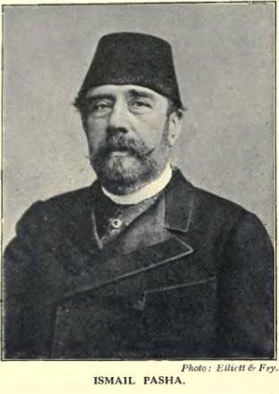 Isma'il Pasha, Khedive of Egypt